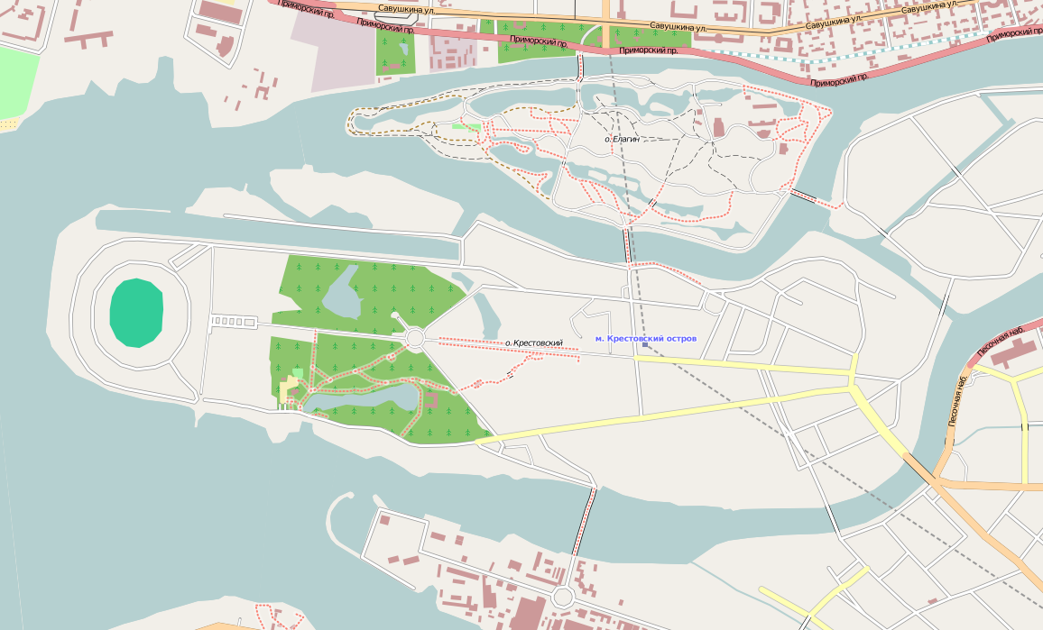 Map of Maritime Victory Park in Saint Petersburg, Russia. This map may be incomplete, and may contain errors. Don't rely solely on it for navigation.